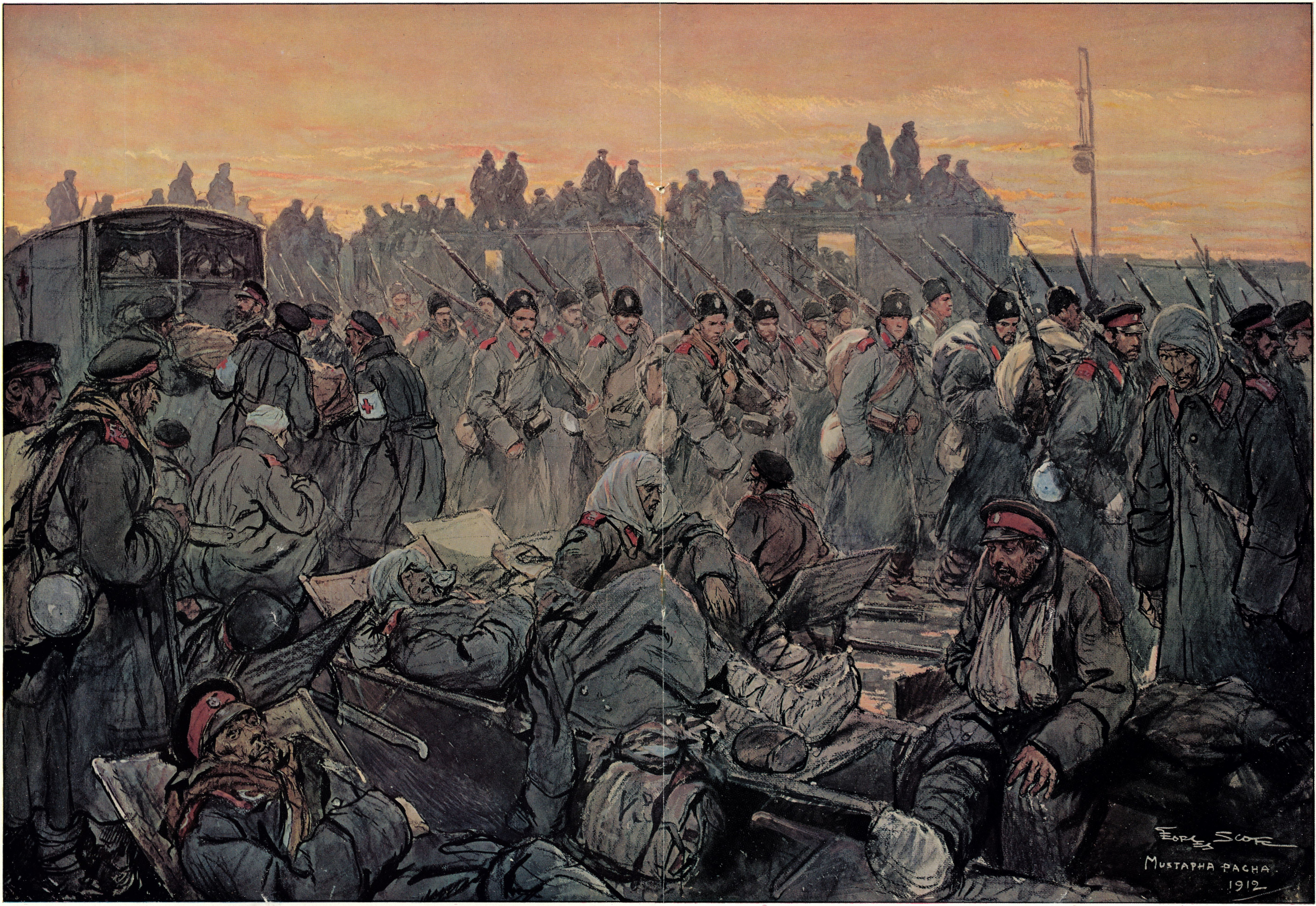 Bulgarian wounded wait at a train station at Mustafapaşa as fresh troops are brought in, during the battle of Chataldja in the First Balkan War